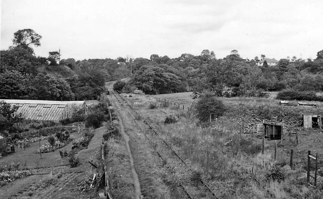 Site of Bridgefoot Station. View northward, towards Marron West Jct., Camerton (and Workington); ex-LNW & Furness Joint Marron West Jct. - Ullock - Cleator Moor line. Passenger trains ceased and station closed back on 13/4/31, but remained open for goods until line closed completely (Marron Jct. - Rowrah) on 3/5/54; the remainder of the line lasted a few years longer.